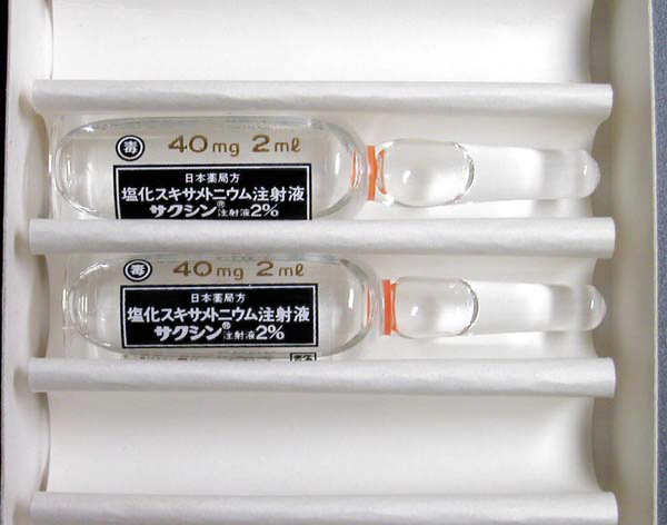 suxamethonium injection